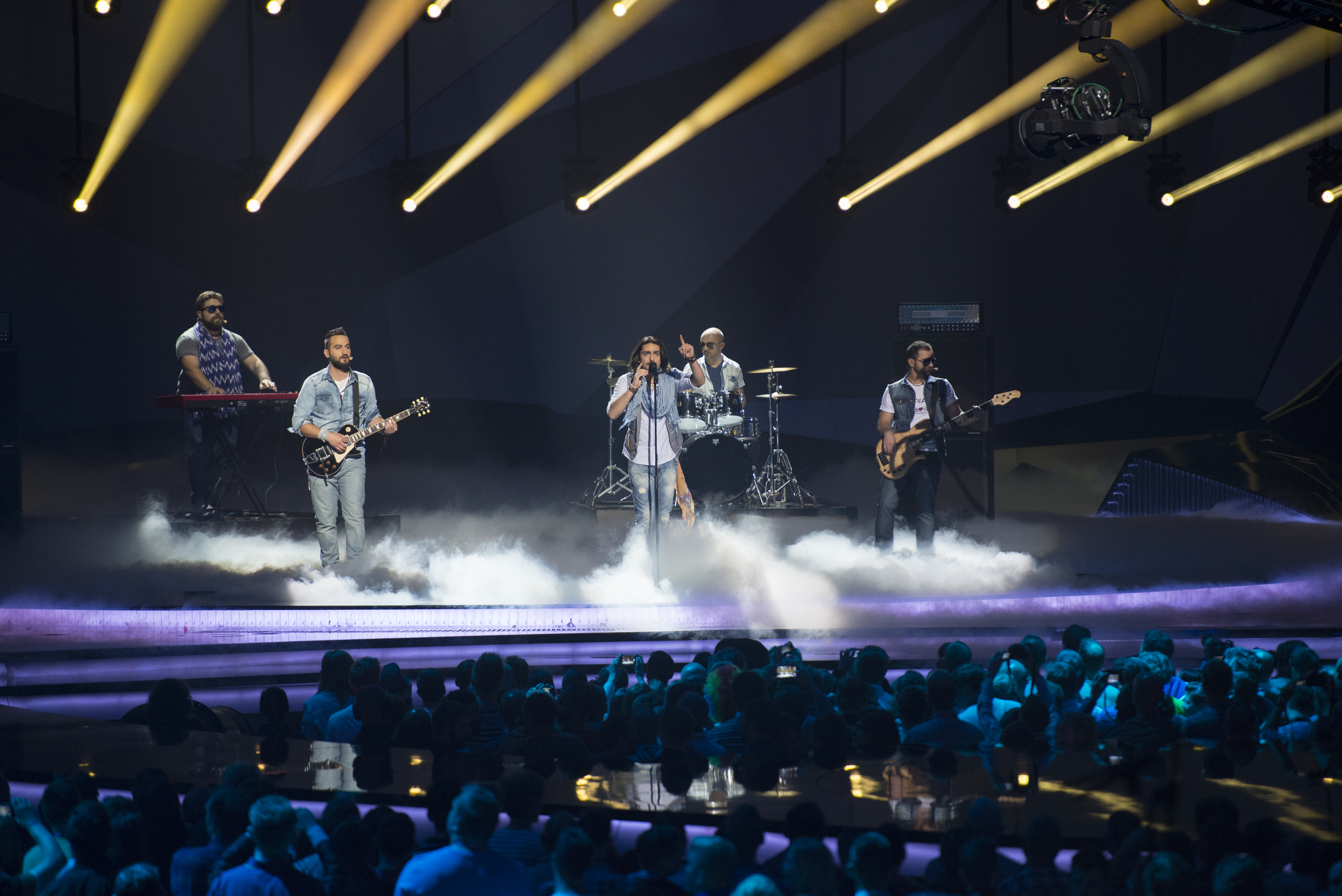 Dorians representing Armenia with the song "Lonely Planet" during the second dress rehearsal of the second semi final of the Eurovision Song Contest 2013 Malmö. (Help translate this text)